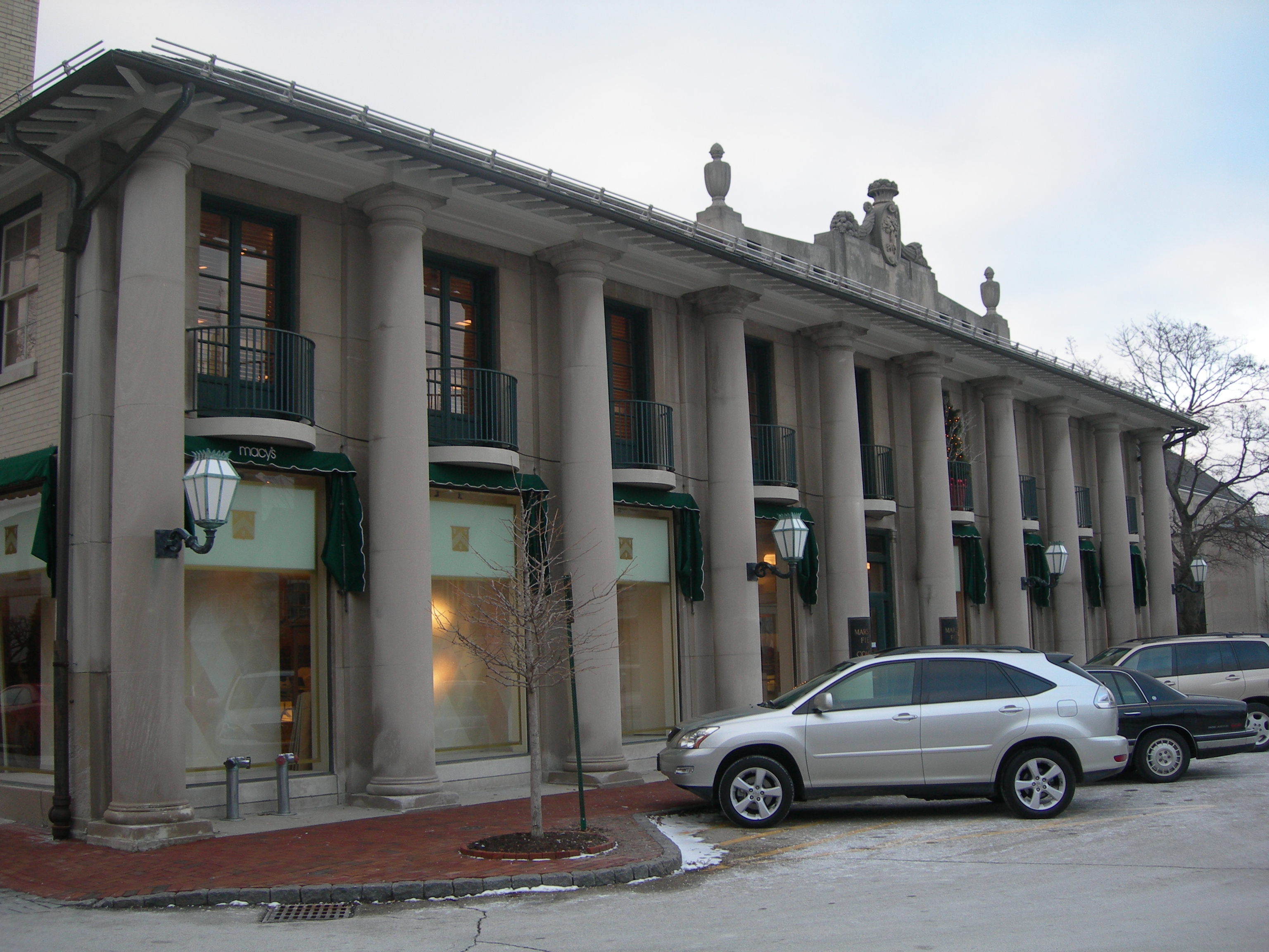 Former Marshall Field's in Lake Forest, Illinois that closed in 2008 due to Macy's decision not to renew the lease. It was the only "old" suburban store left as the others closed while still operating under the Field's name.